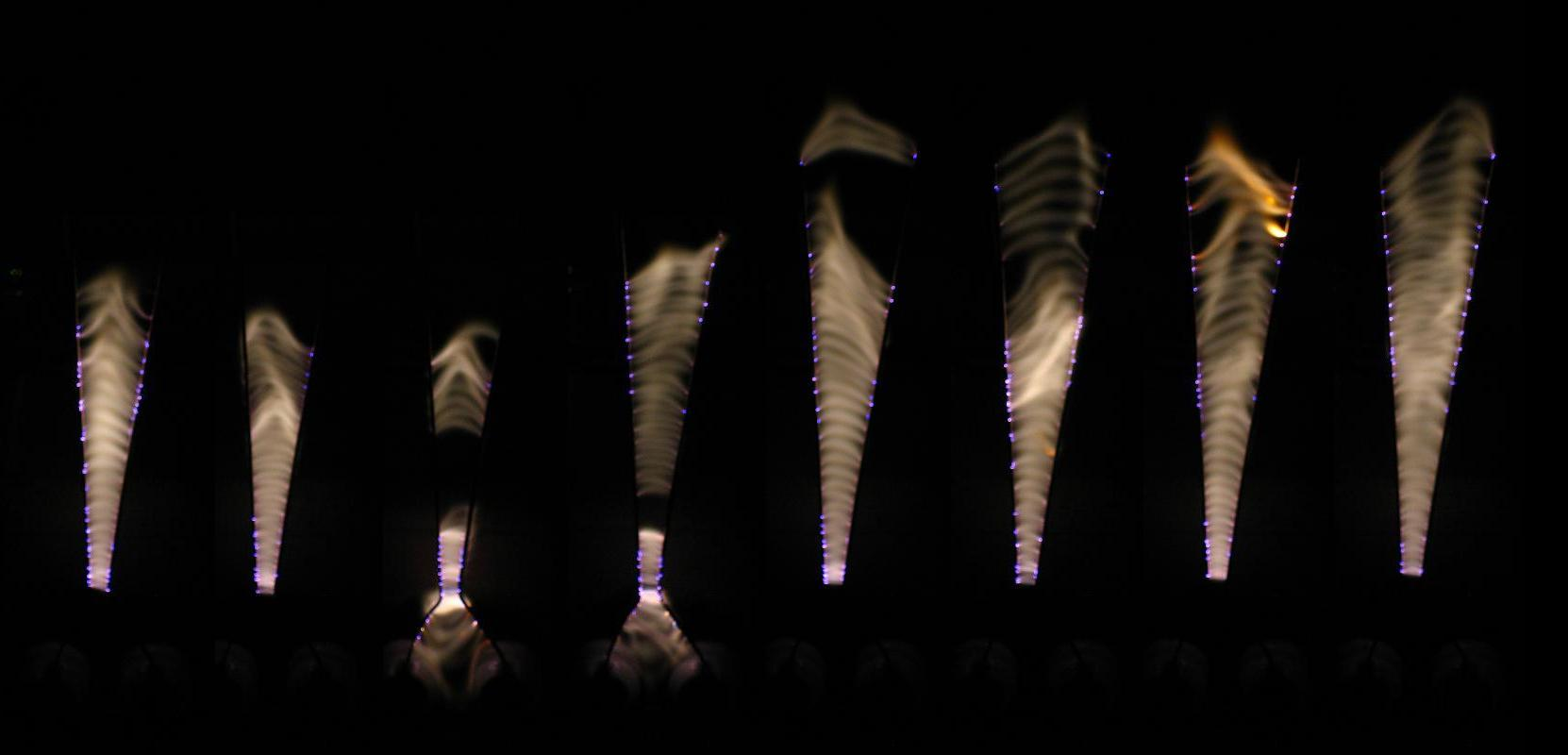 12kV Jacob's ladder